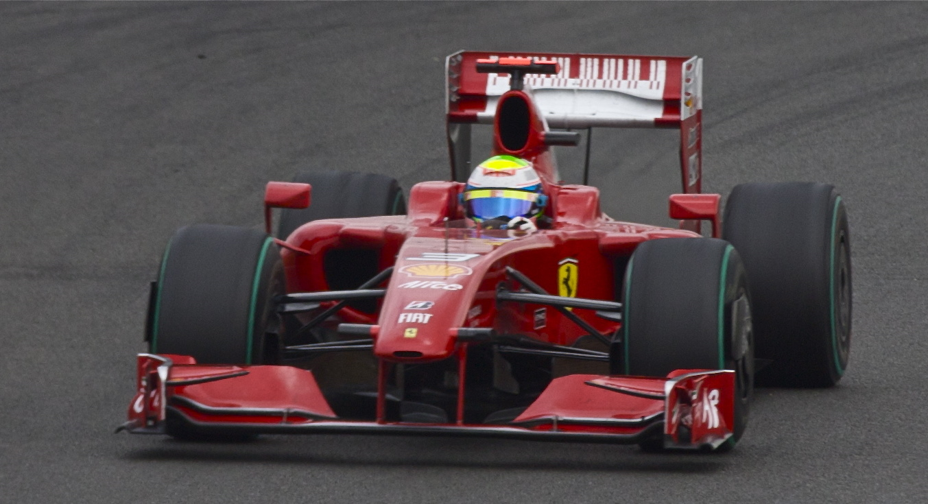 Felipe Massa at the 2009 British Grand Prix, Silverstone, UK.